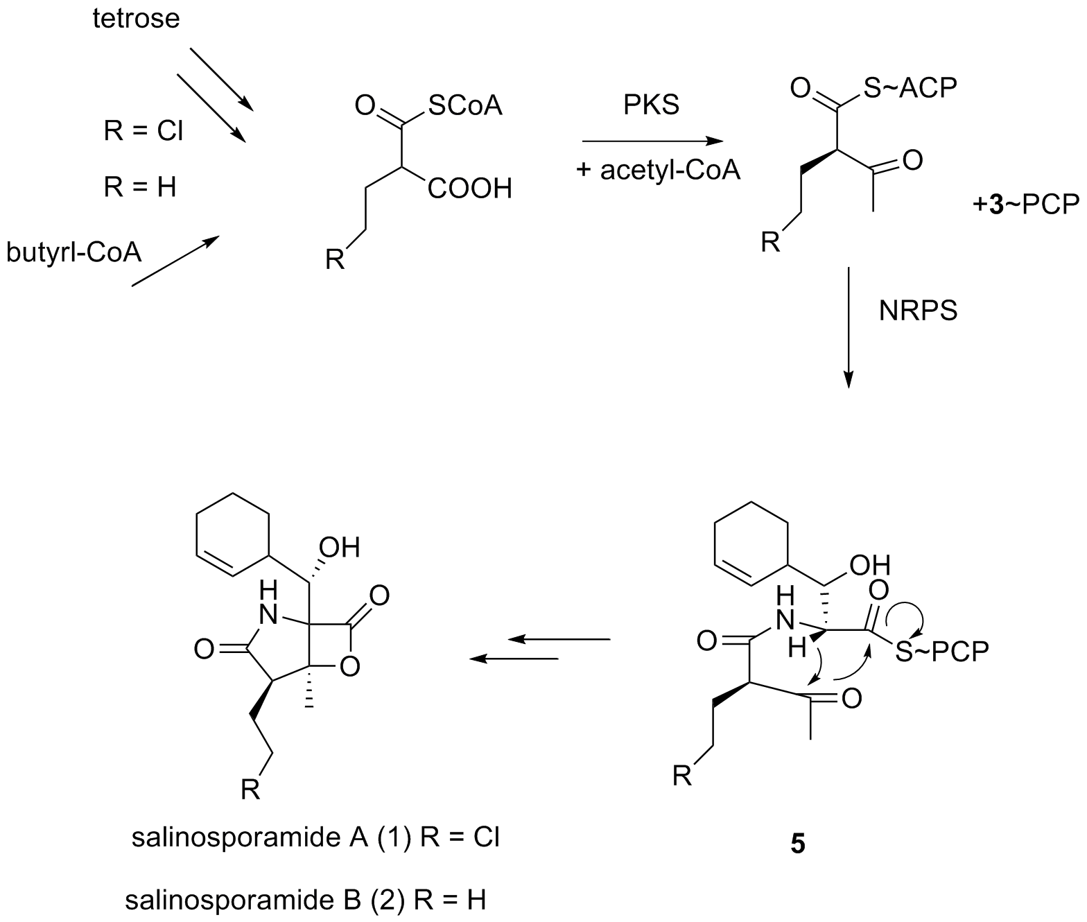 I, Mike Macrae, created this image in ChemDraw